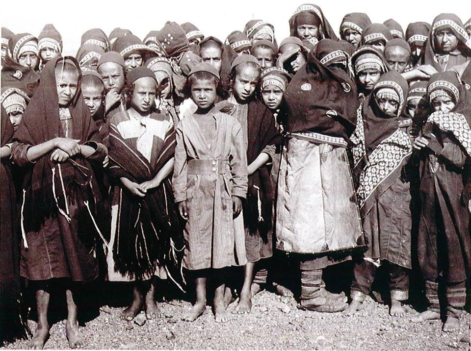 Children in Sana'a, Yemen. Photographed by Hermann Burchardt (died 1909)